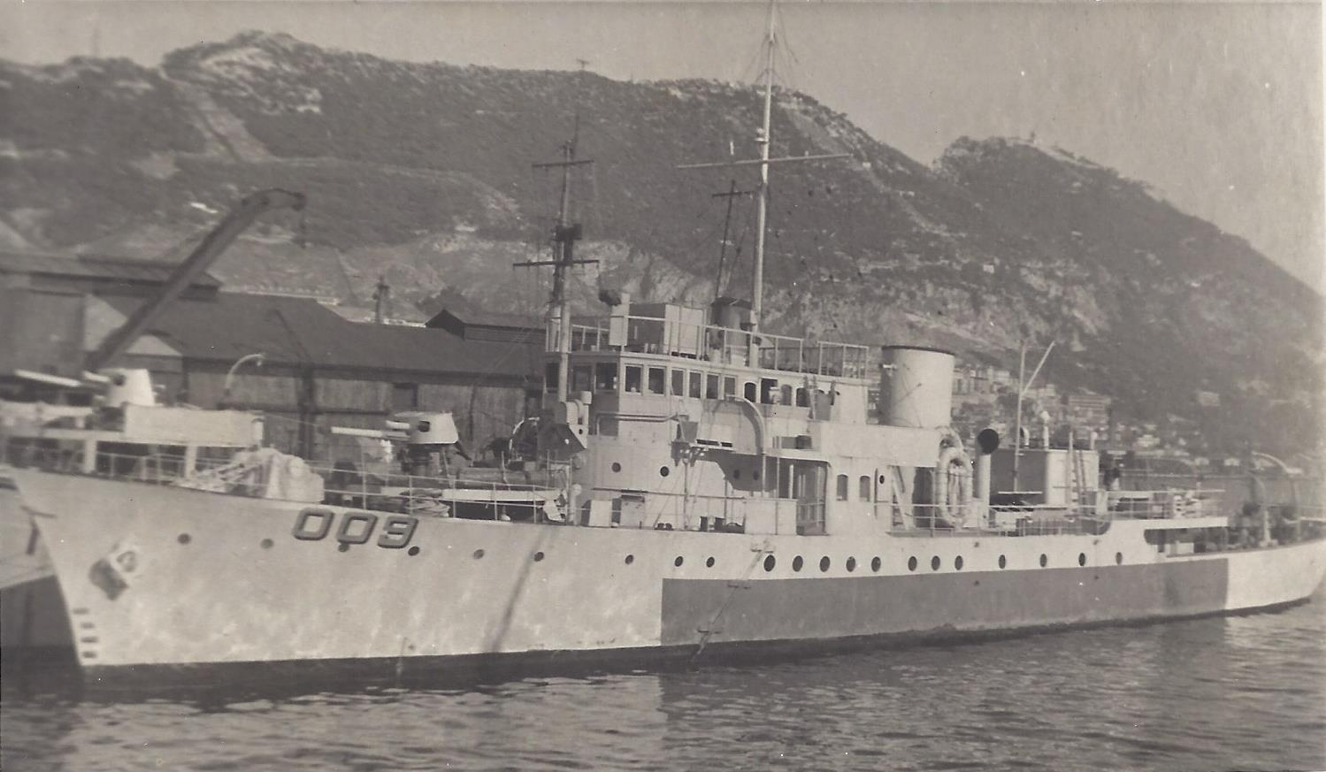 HMS Evadne at Gibraltar, 1945